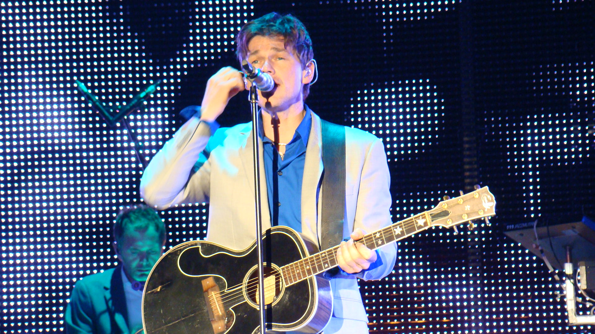 Concert a-ha, Kiev, Ukraine, 4 nov.2010